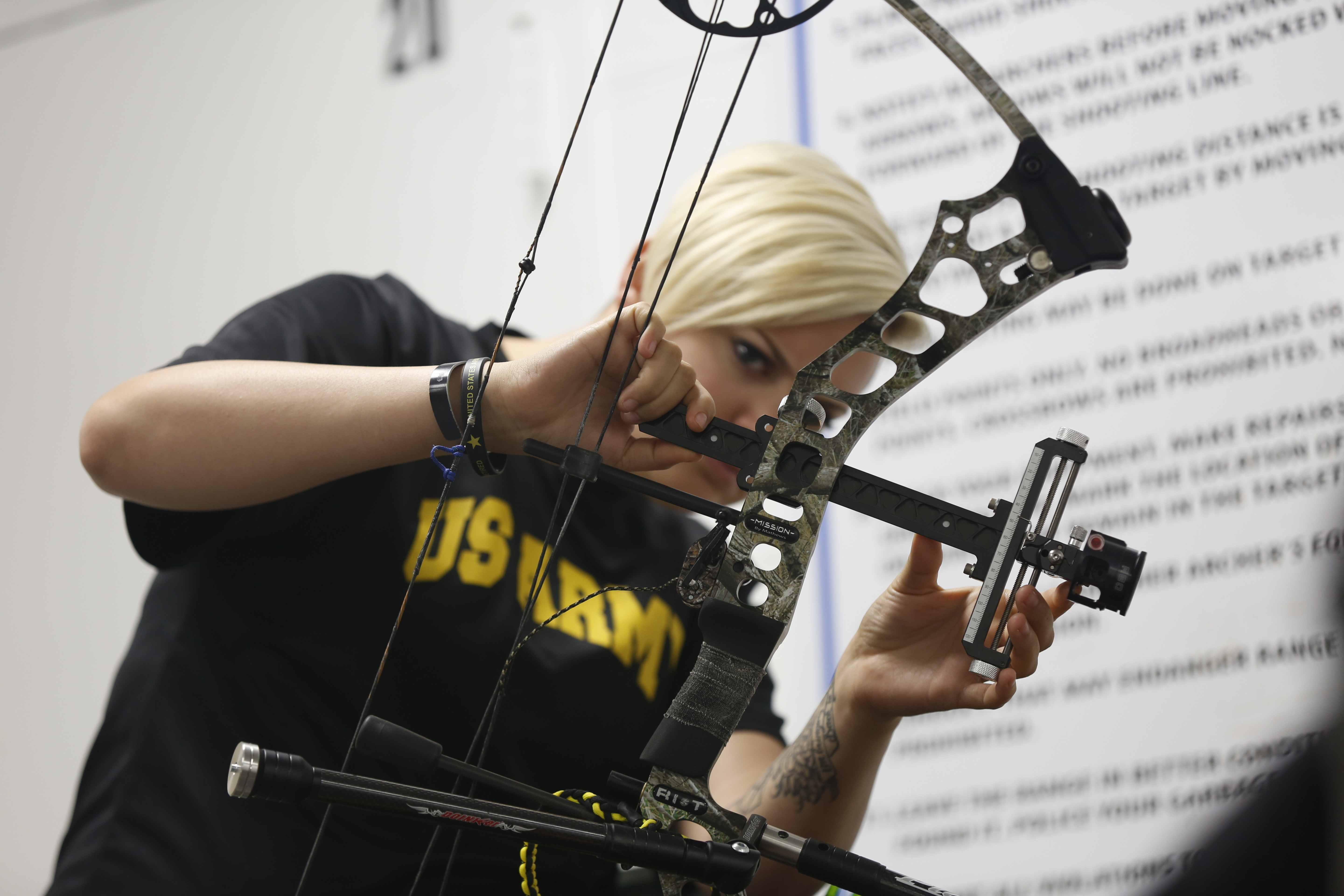 U.S. Army veteran Spc. Laurel Cox, Stanardsville, Va., adjusts her sights on her bow for archery training for the 2015 Department of Defense Warrior Games at Fort Belvoir, Va., June 14, 2015. Cox is one of more than 40 active duty and veteran athletes training at Fort Belvoir. She will represent Team Army in the archery, shooting and field competitions for the 2015 DOD Warrior Games held at Marine Corps Base, Quantico, Va., June 19-28. The 2015 DOD Warrior Games is an adaptive sports competition for wounded, ill and injured service members and veterans. Approximately 250 athletes, representing teams from the Army, Marine Corps, Navy, Air Force, Special Operations Command and the British Armed Forces will compete in archery, cycling, shooting, sitting volleyball, swimming, track & field and wheelchair basketball. (Photo by US Army Pfc. Sandy Barrientos/Released) Unit: Warrior Transition Command